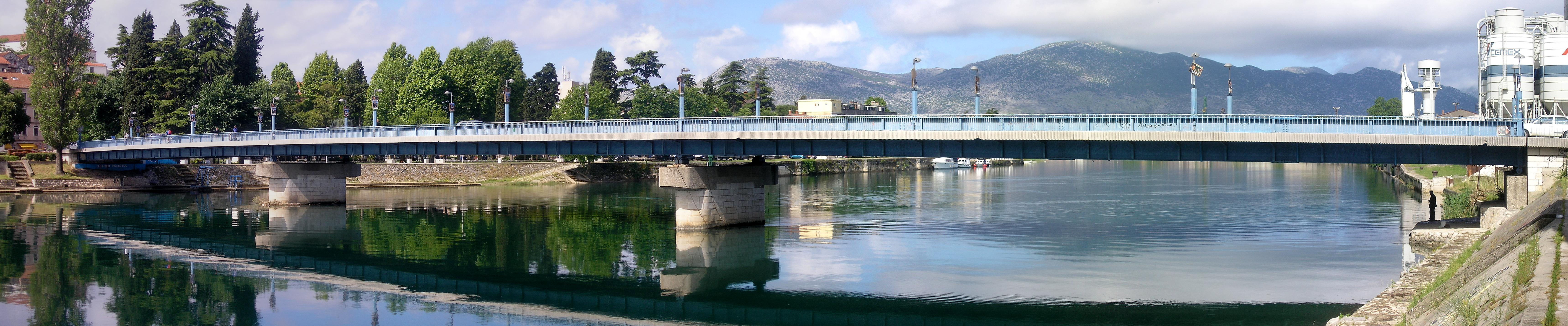 Harbor bridge in Metković, Croatia